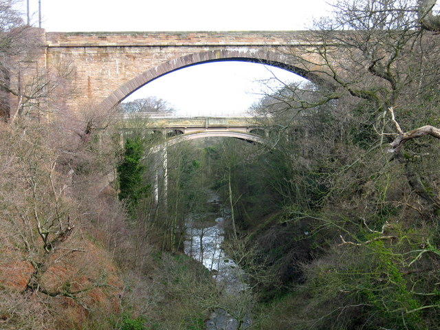 Dunglass Bridge and Viaduct. Dunglass Bridge on the A1. Dunglass Viaduct over Dunglass Dean near Cockburnspath